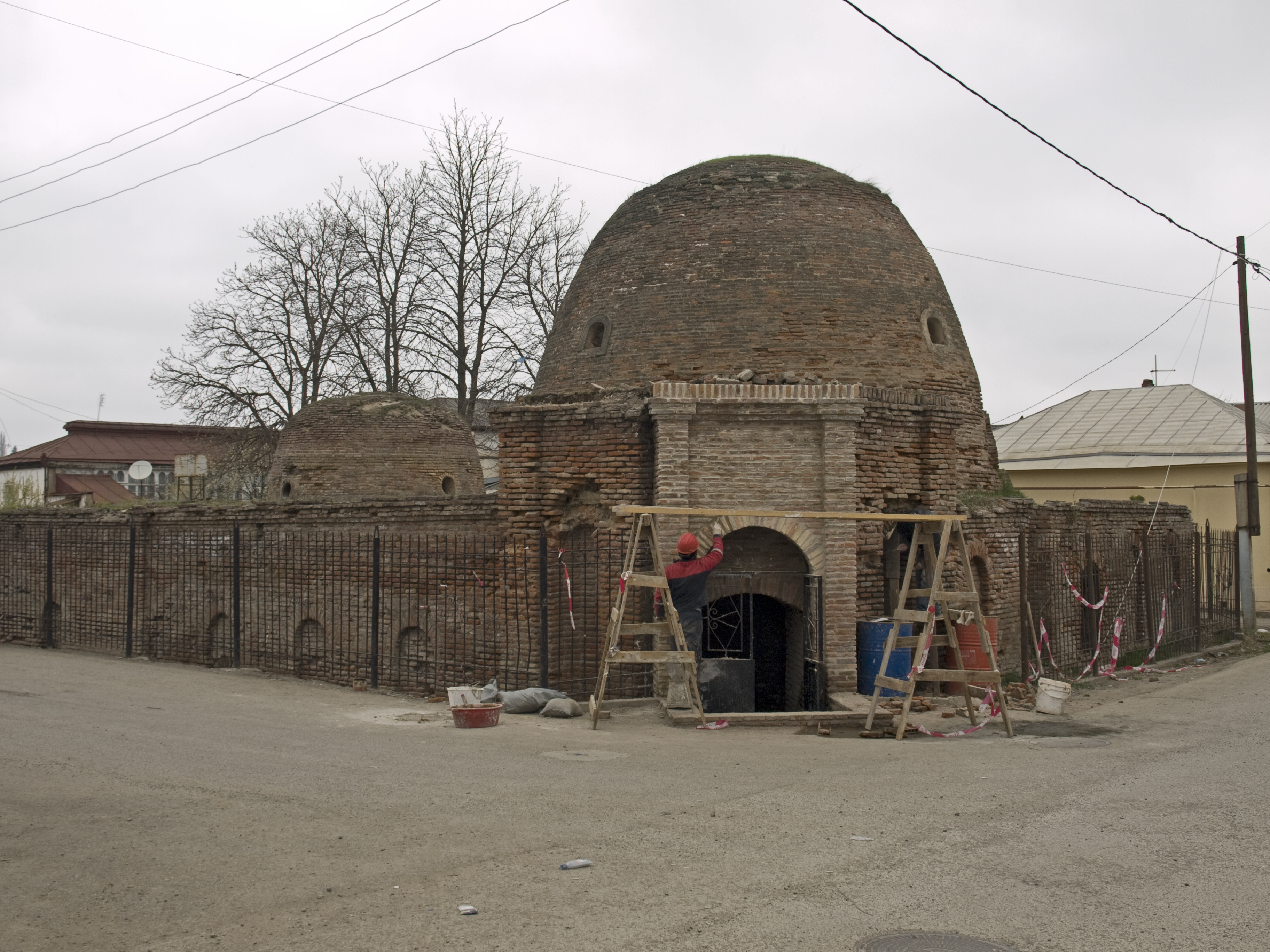 Hammam, 18th century, Quba